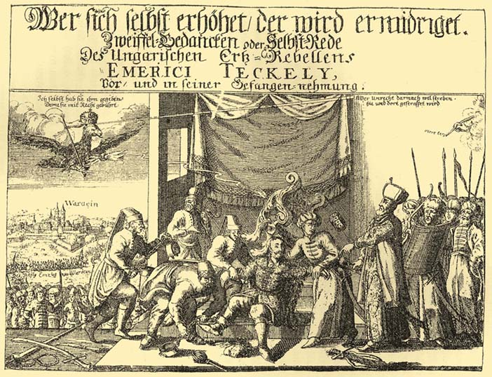 Arrest of Imre Thököly in 1685